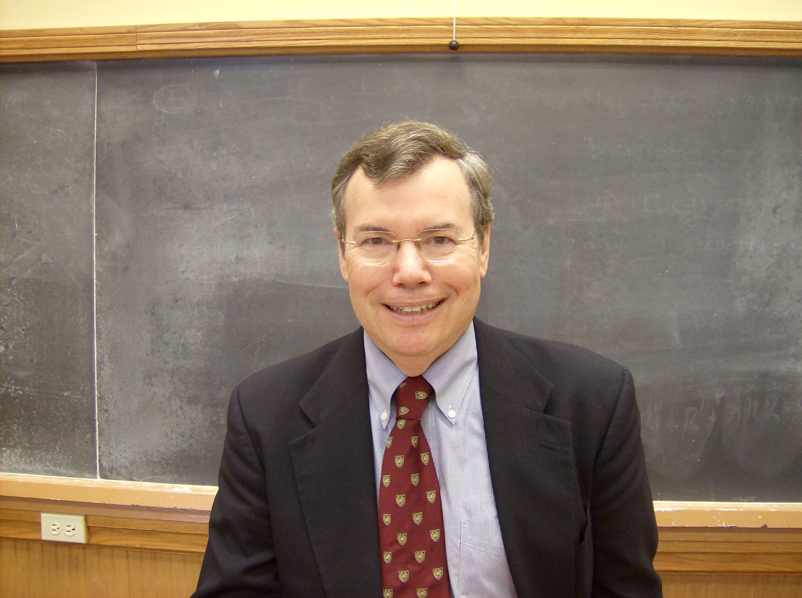 Photograph of Dr. Robert K. Musil, CEO of International Physicians for the Prevention of Nuclear War when it won the Nobel Peace Prize and current faculty member at American University in Washington, D.C.. Picture taken after visiting class lecture at Geneva College.